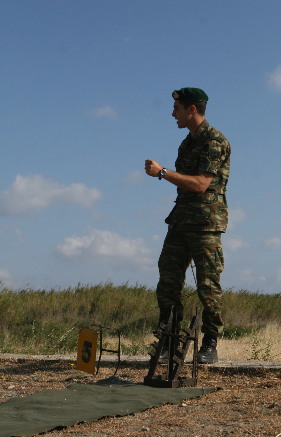 A member of 1st Paratrooper Battalion, Greek Special Forces, prepares for a live-fire exercise at Maleme, Crete, with Marines of the Security Cooperation Marine Air Ground Task Force, Africa Partnership Station 10, May 20. In addition to the range, the Greek service members also received combat life saving classes instructed by SCMAGTF Corpsmen and a combat leadership forum from Marine veterans of Iraq and Afghanistan.